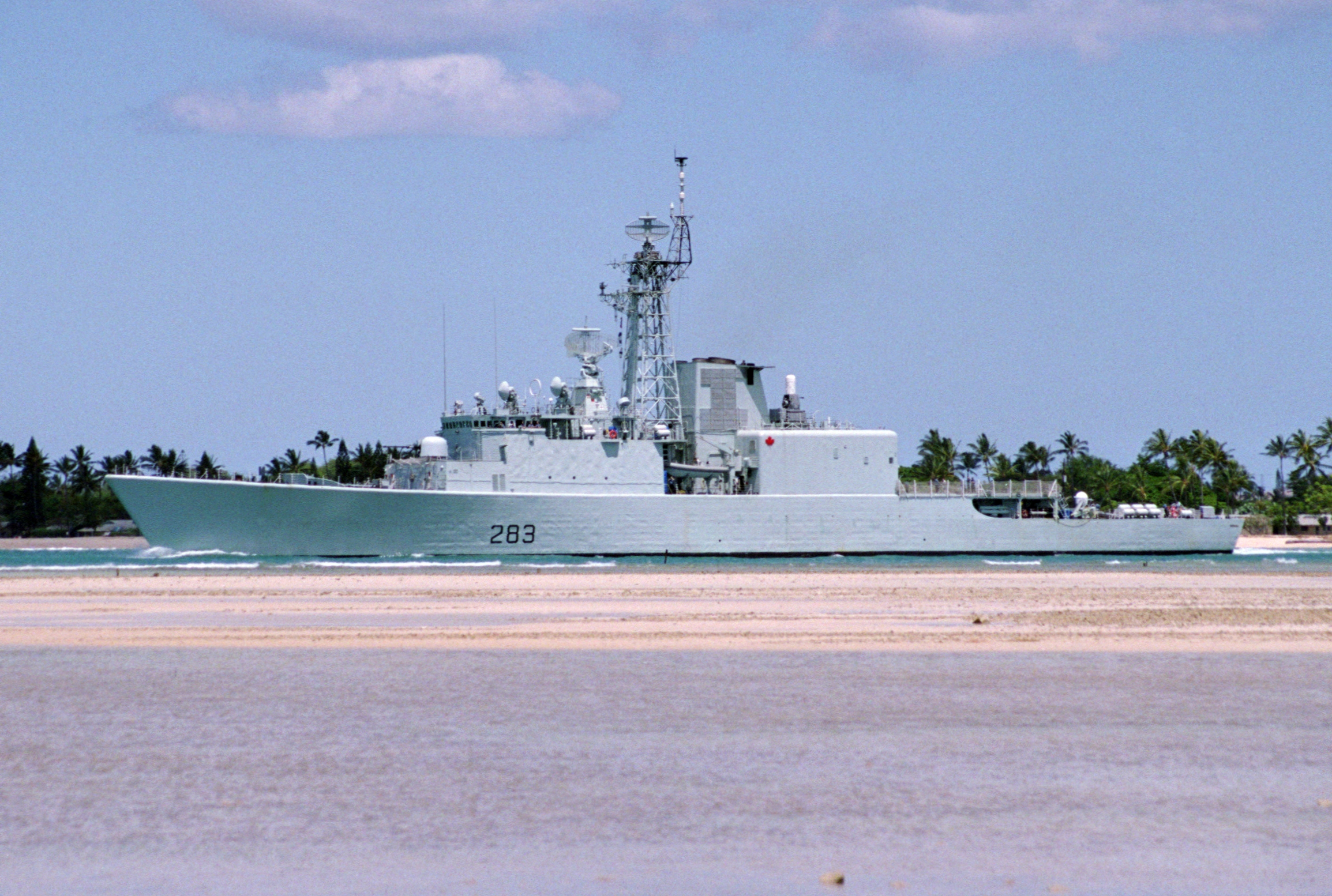 The Canadian frigate HMCS Algonquin (DDG 283) moving down the channel at Pearl Harbor, Hawaii (USA), en route to take part in Operation RIMPAC 2000.